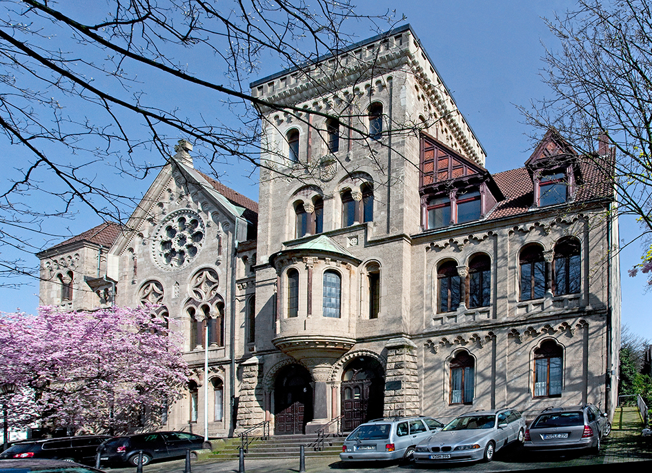 Gemeindehaus Duisburg-Ruhrort/Beeck